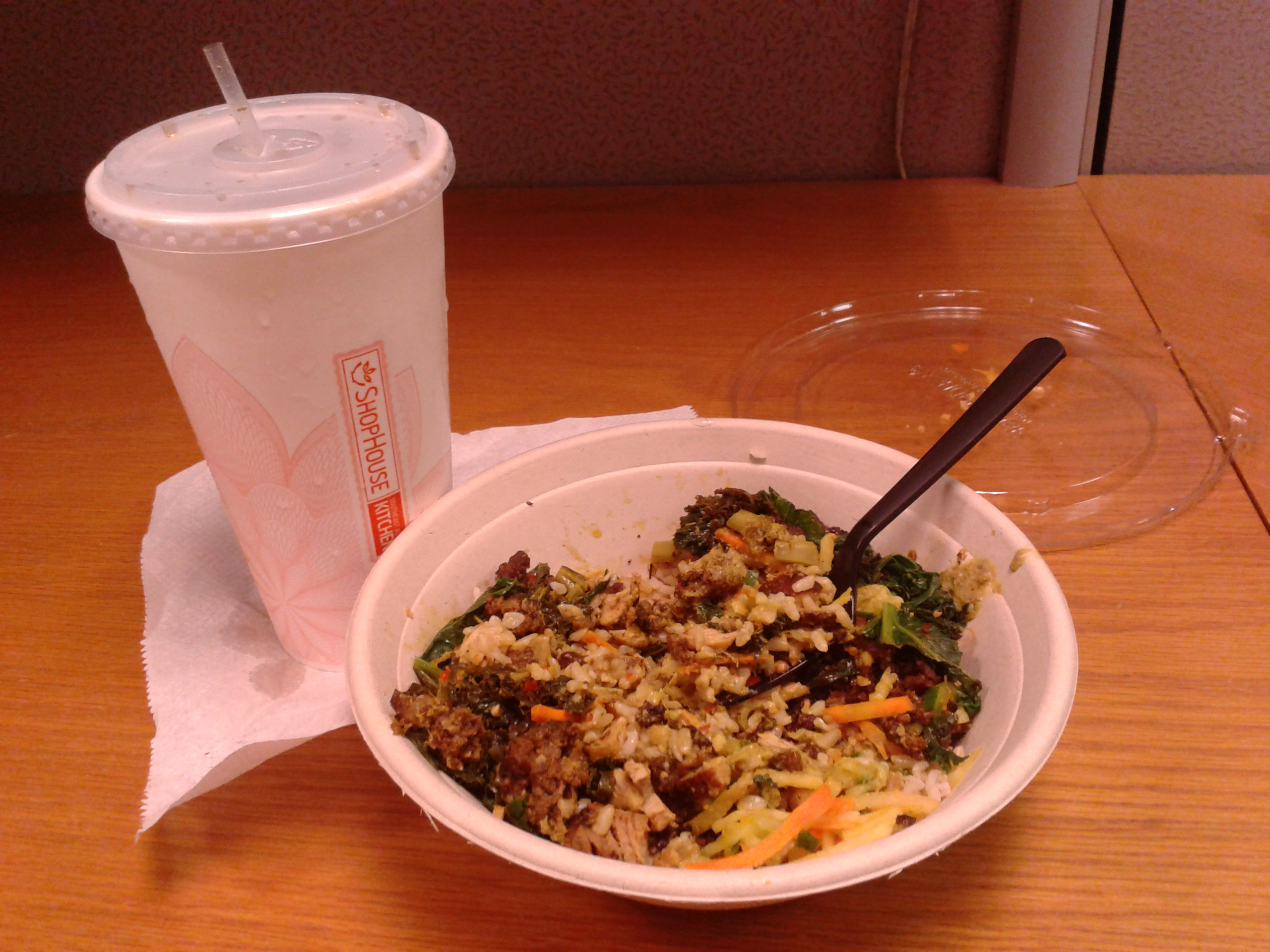 Brown rice bowl with chicken and beef, seasonal vegetables, green curry, pickled vegetables, and garlic. From ShopHouse at Union Station in Washington, D.C. Partially eaten.